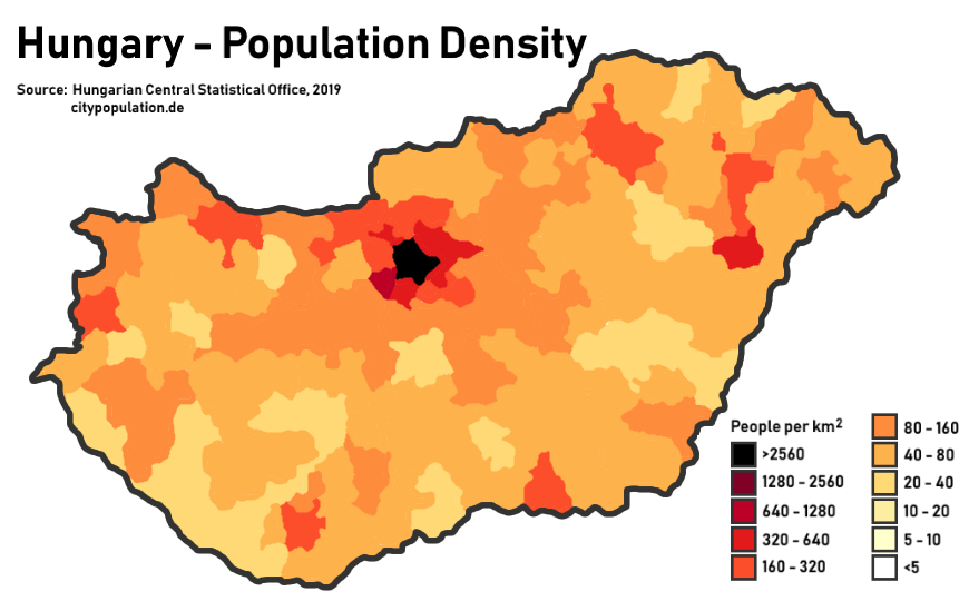 A map representing the population density in Hungary, as of 2019